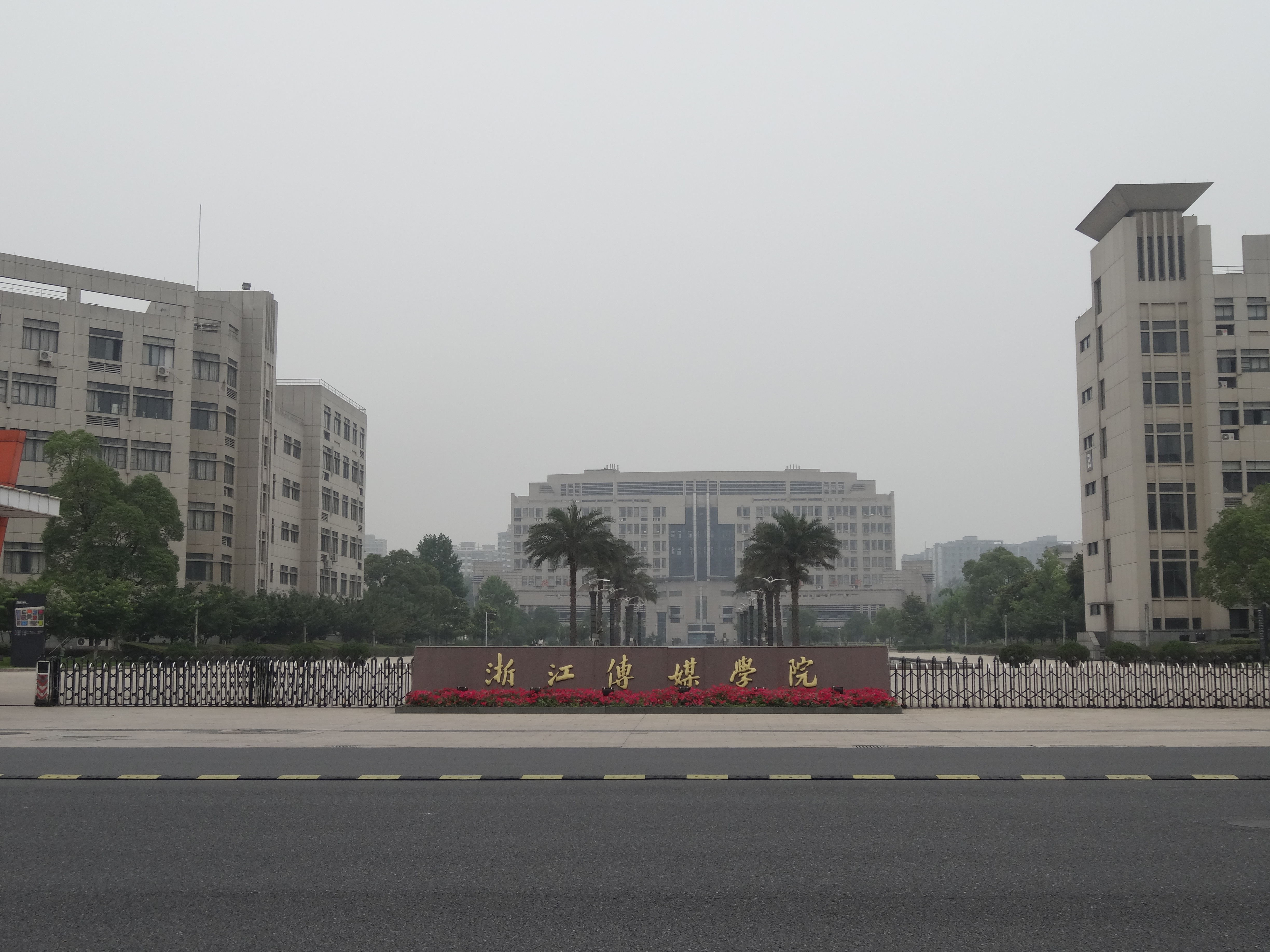 ZUMC Xiasha campus